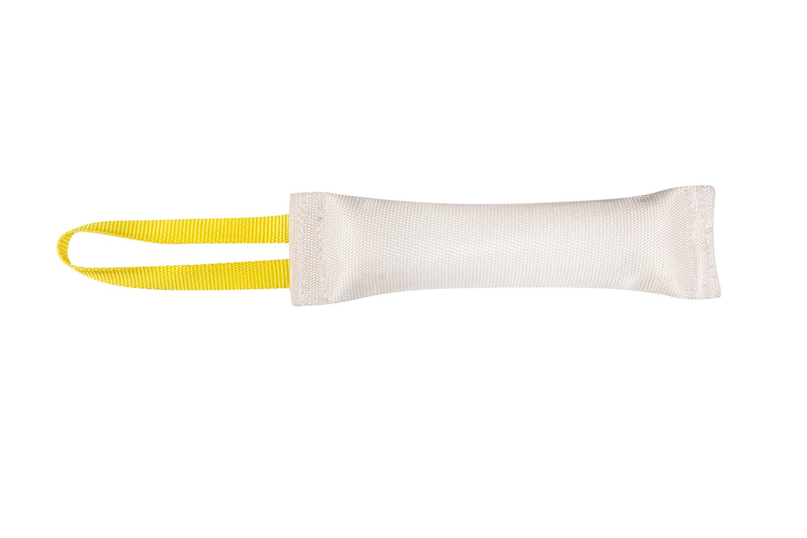 Dog bite tug made of fire hose with 1 handle for puppy and adult dog training